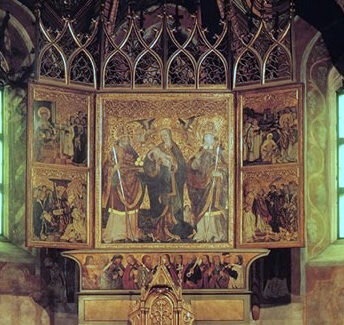 Triptych in Church of St. Stanislaw in Bielsko-Biala (Stare Bielsko district).